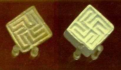 Seals of the Indus Valley Civilization. also showing Swastikas. British Museum. Personal photograph, 2005. Other versions